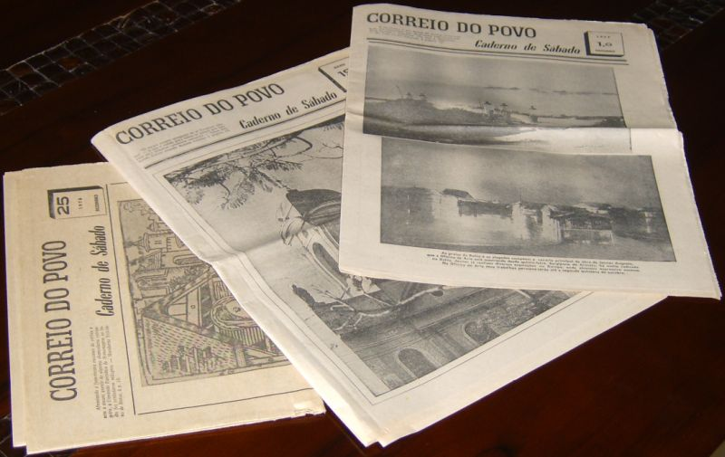 Photo: Caderno de Sábado, a literary paper edited by Cia. Jornalística Caldas Júnior, copies from the seventies.